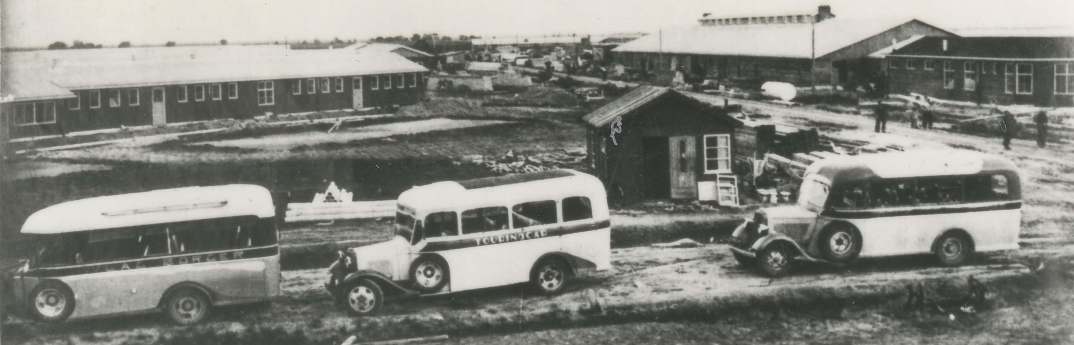 Baracks in the Central Refugee Camp near Westerbork. The three autobuses in the foreground were used for transportation to and from the camp.